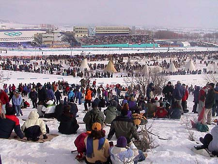 The crowds at Soldier Hollow on Tuesday, Feb. 19, 2002 find a vantage point along the snake-like course of the venue for Cross-Country, Biathlon and the Nordic Combined.